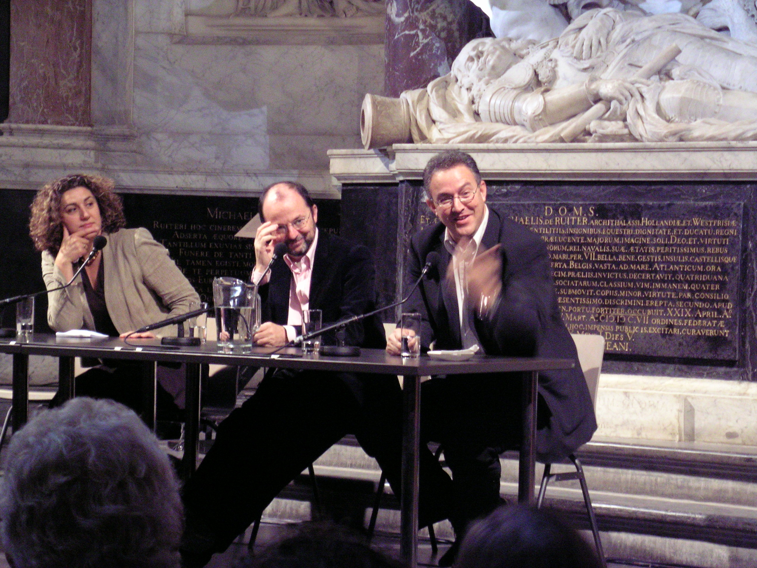 The panel of the final discussion at the manifestation of Hans Dijkstal's Een Land Een Samenleving at 2006-11-11 in the Nieuwe Kerk (New Church) in Amsterdam. From left to right Halleh Gorashi, Paul Schnabel and Ahmed Aboutaleb. Original filename: Dscn6549.jpg